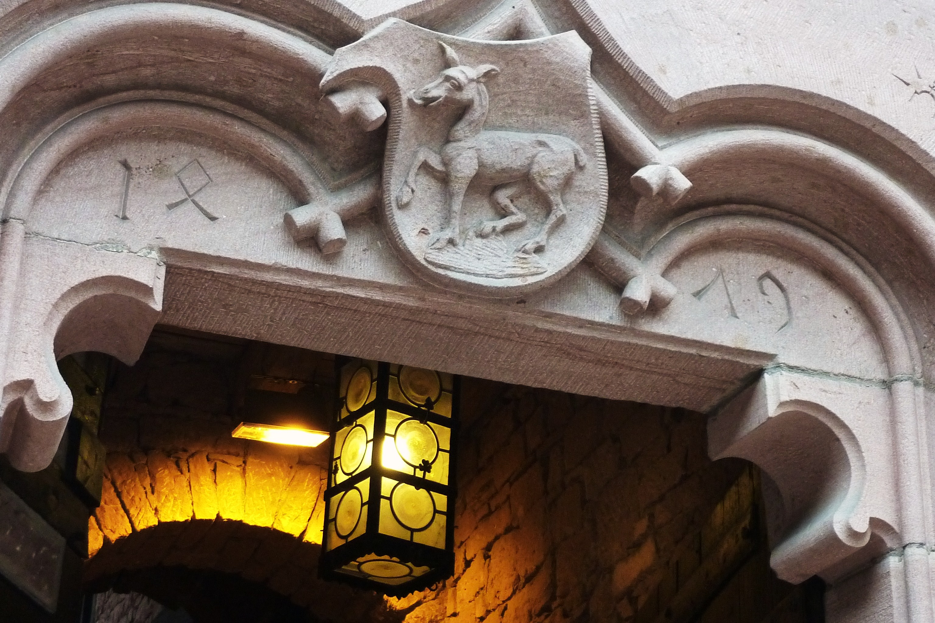 Door with coats of arms of the Thierstein family at Haut-Koenigsbourg castle (Alsace/France).